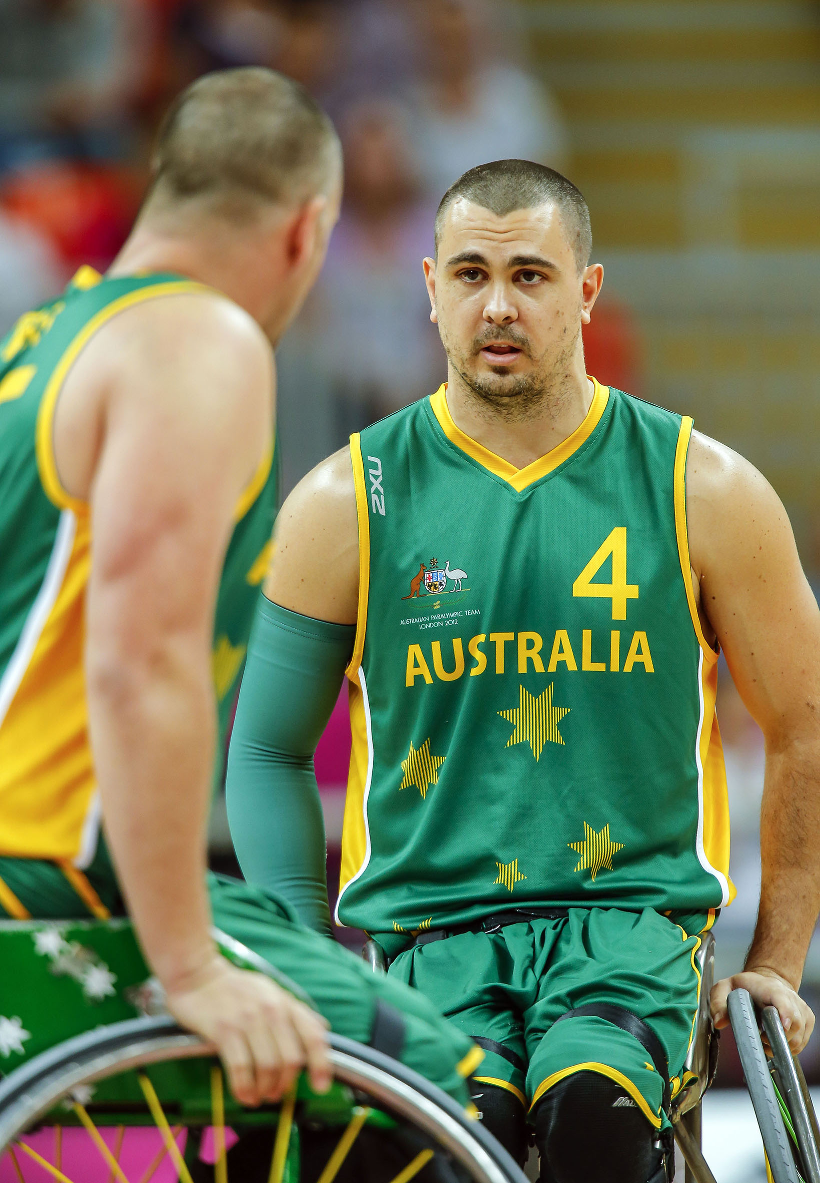 Photograph of Australian Paralympic team member Justin Eveson at the 2012 Summer Paralympic Games in London